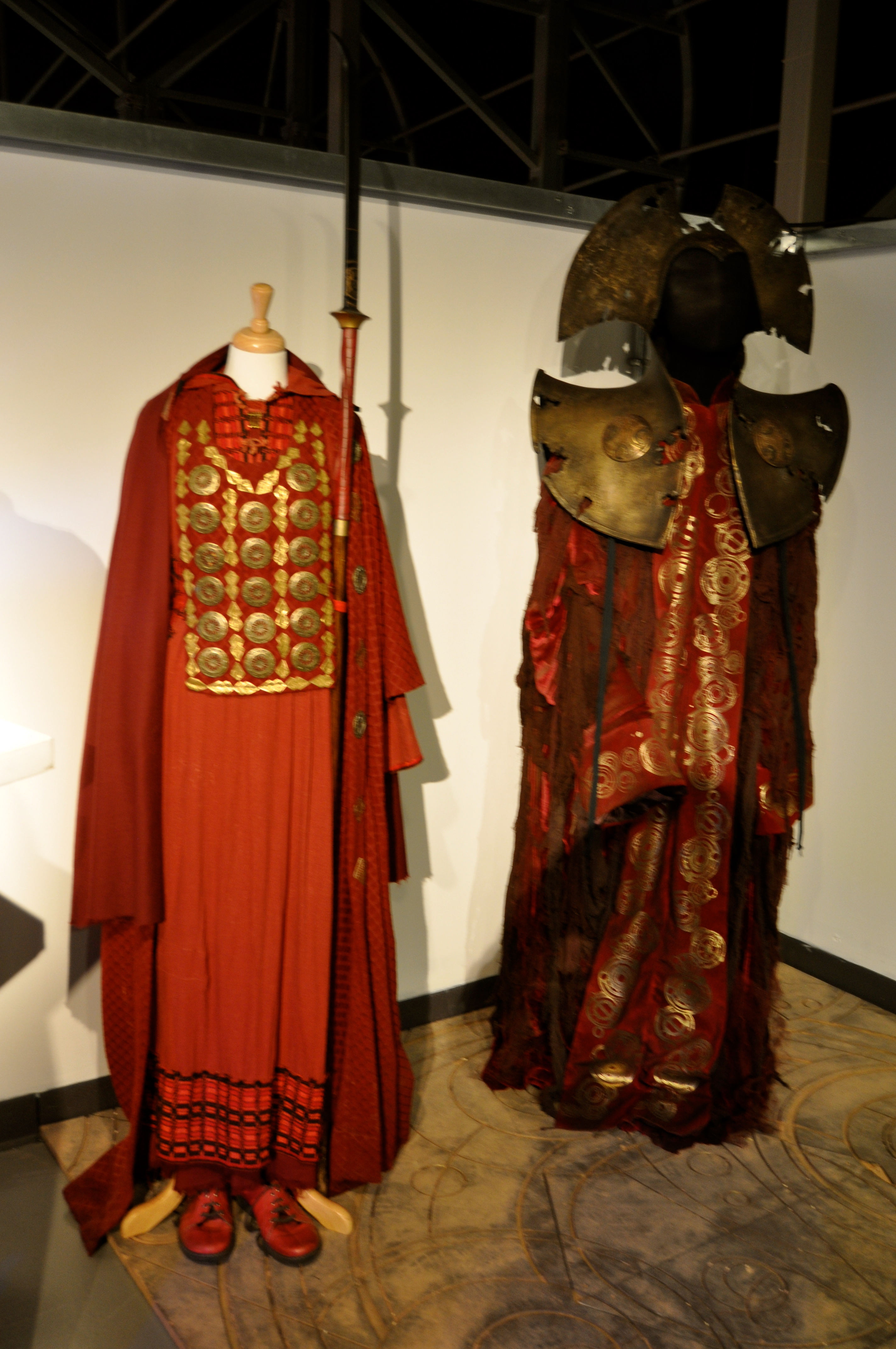 DWE Cardiff Bay, Port Teigr November 2016 Doctor Who Experience